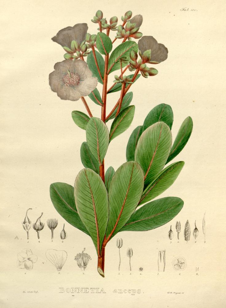 Illustration of Bonnetia anceps